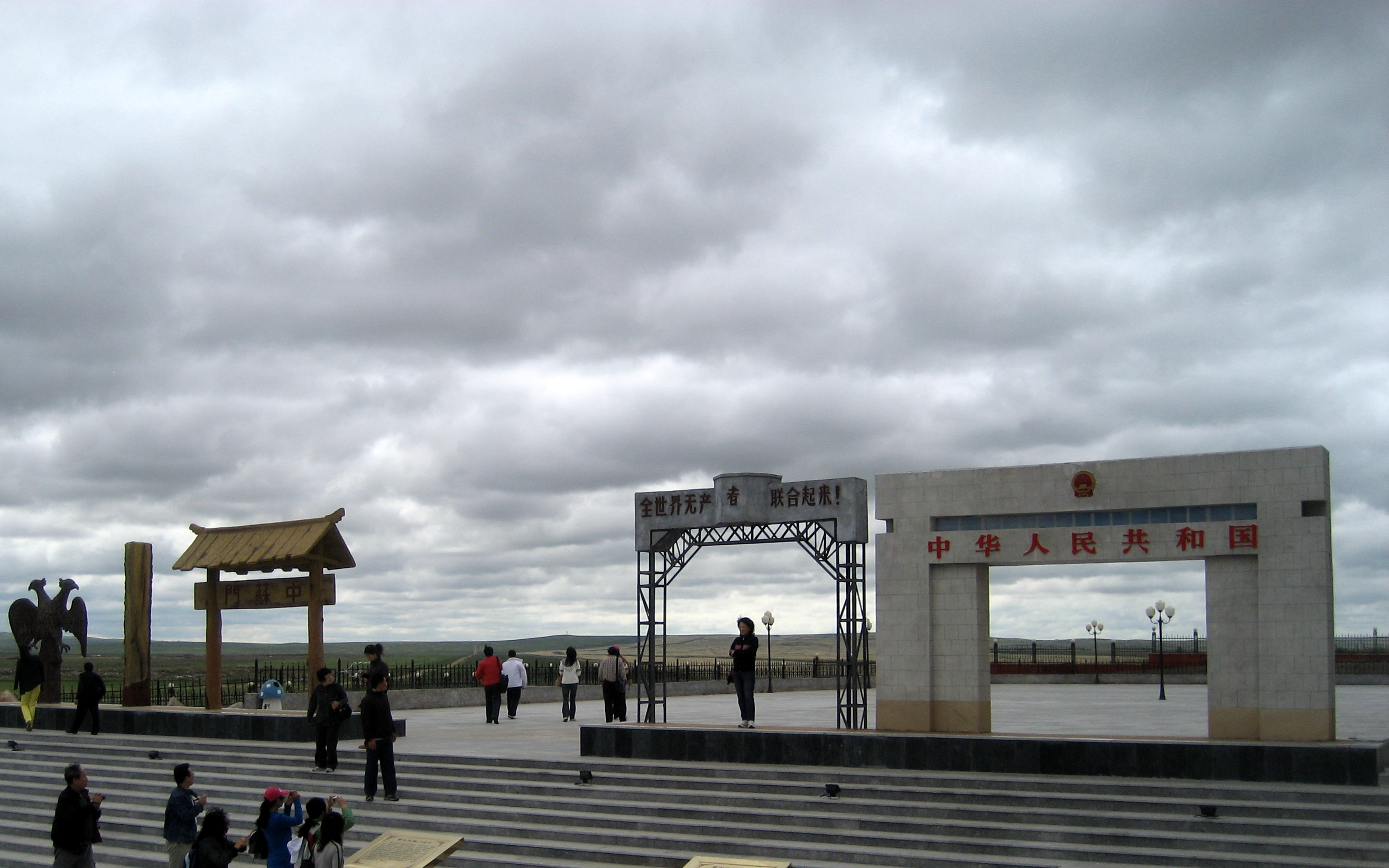 Smaller models of the former Chinese border gates into Russia